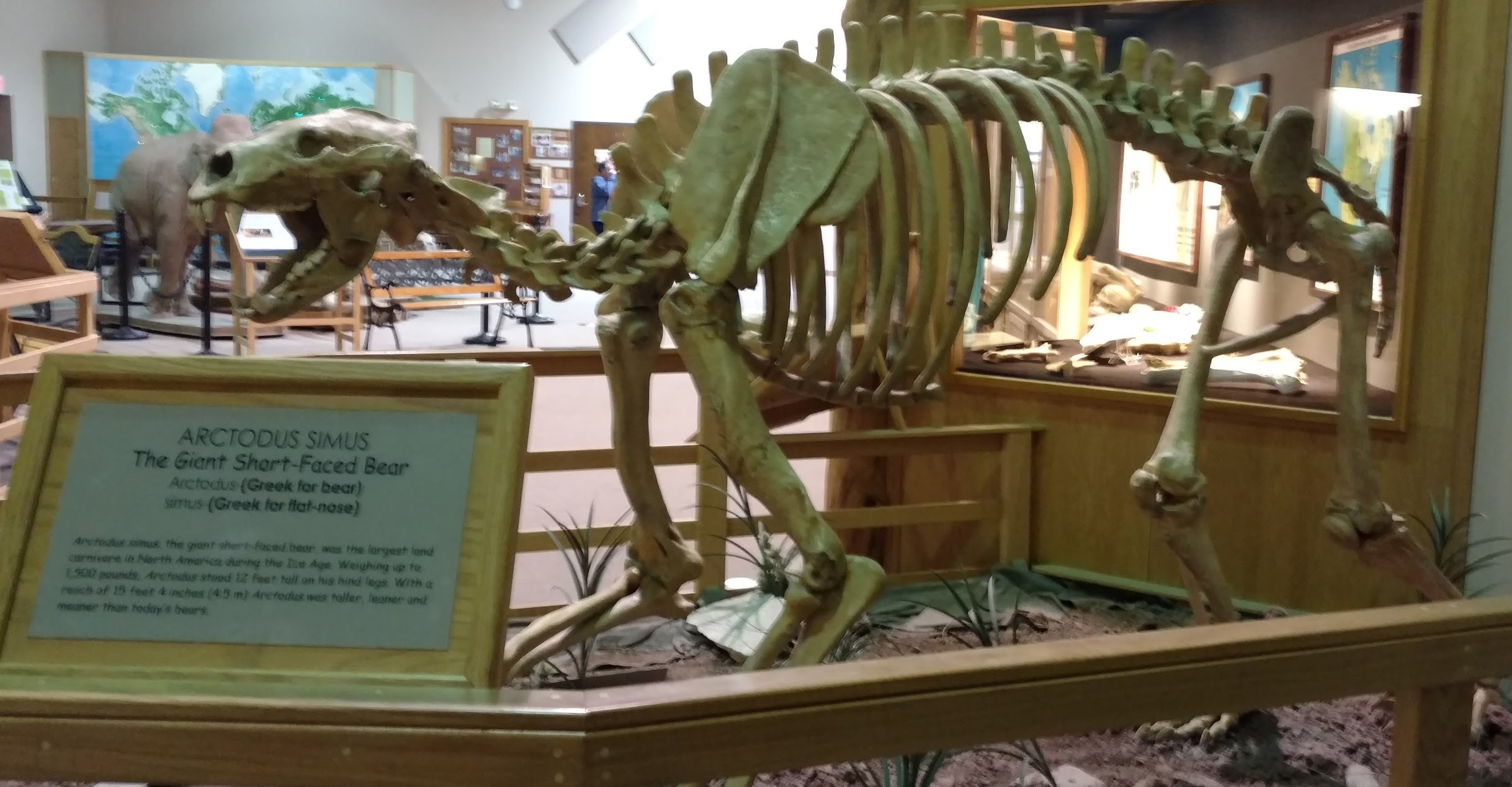 The bones of an Arctodus Simus, a Giant Short-Faced Bear.